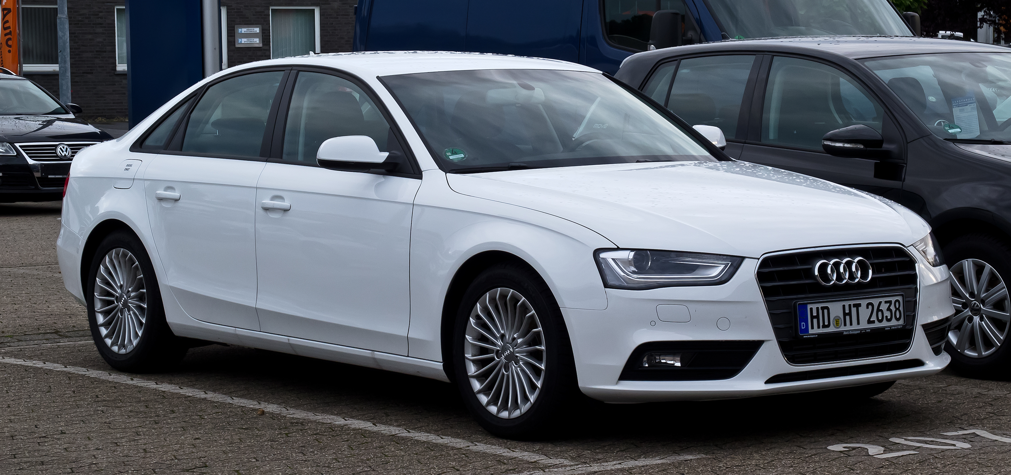 Audi A4 2.0 TDI Ambition (B8, Facelift)